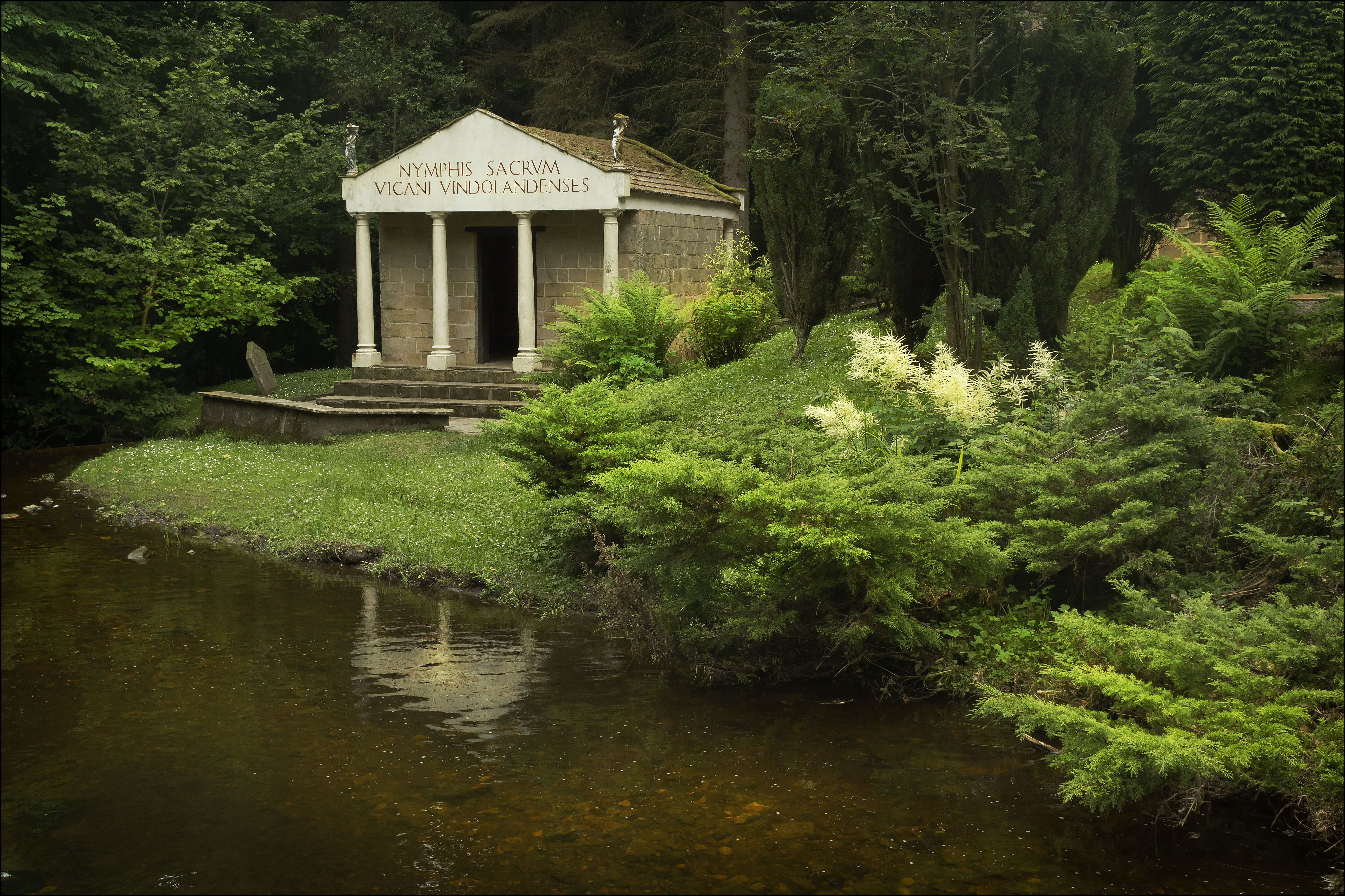 Tyne & Wear